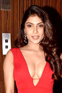 Ishita Raj Sharma graces the success bash of the film Sonu Ke Titu Ki Sweety, Mar 13, 2018